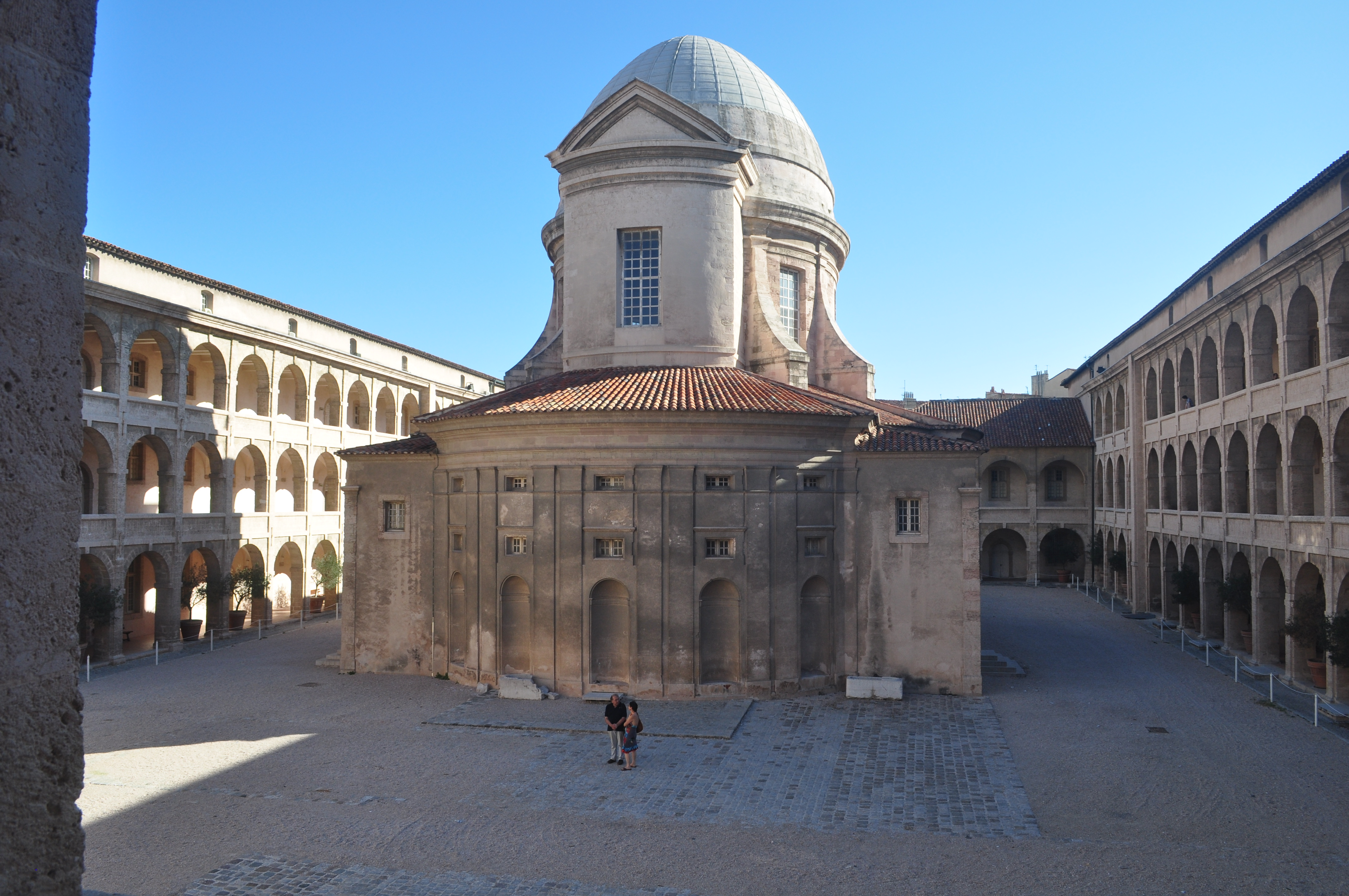 Marseille(France).La vieille charité.(3)